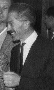 Cropped image of Mouloud Mammeri from another image